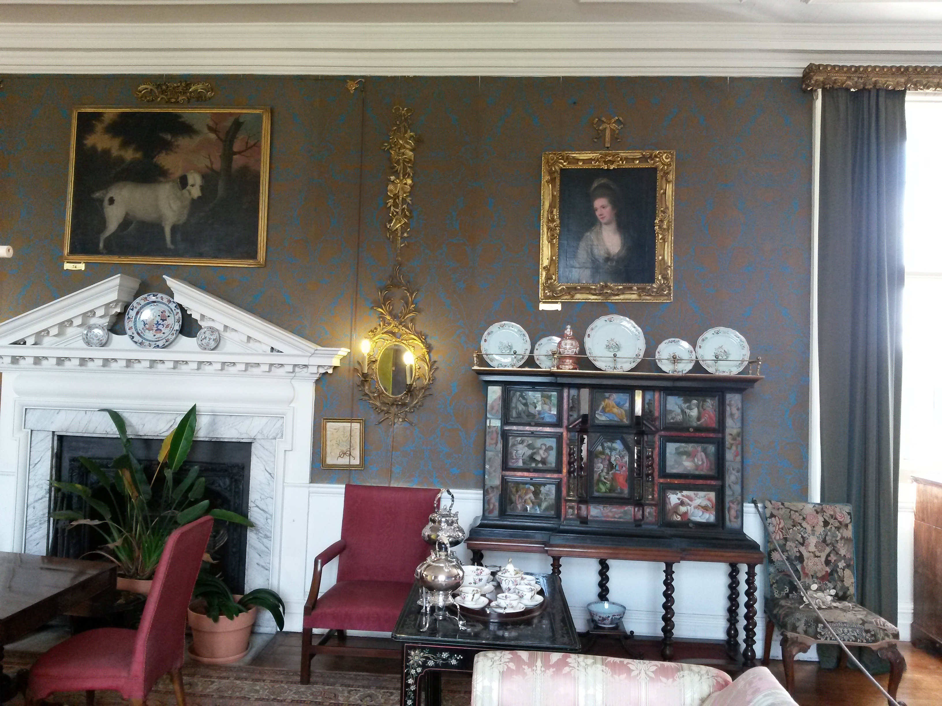 This is a very old painting in the Blue Drawing Room, Doddington Hall, of a dog said to have saved the life of Henry Stone, a Skellingthorpe Farmer.